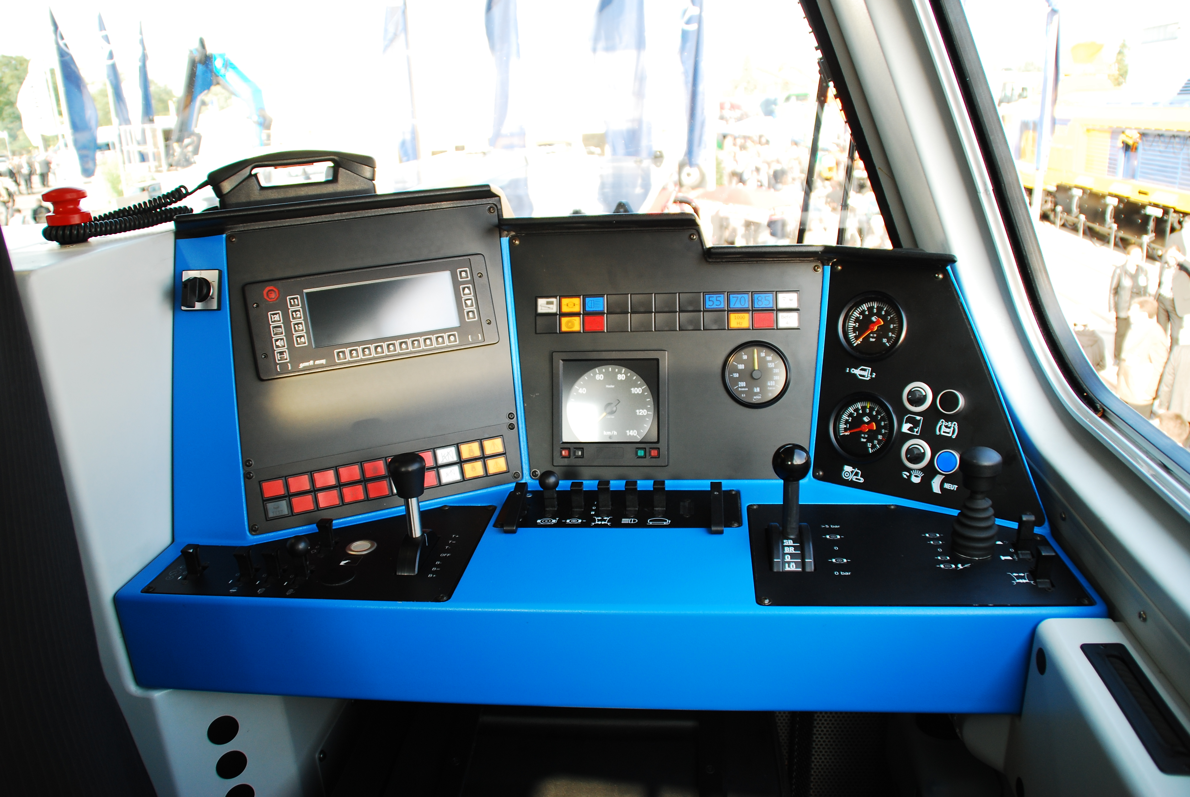 Voith gravita diesel shunter control stand